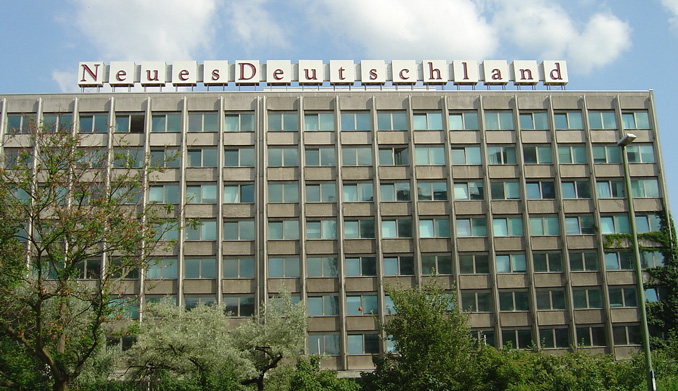 The headquarters of the German newspaper Neues Deutschland, Friedrichshain, Berlin, Germany